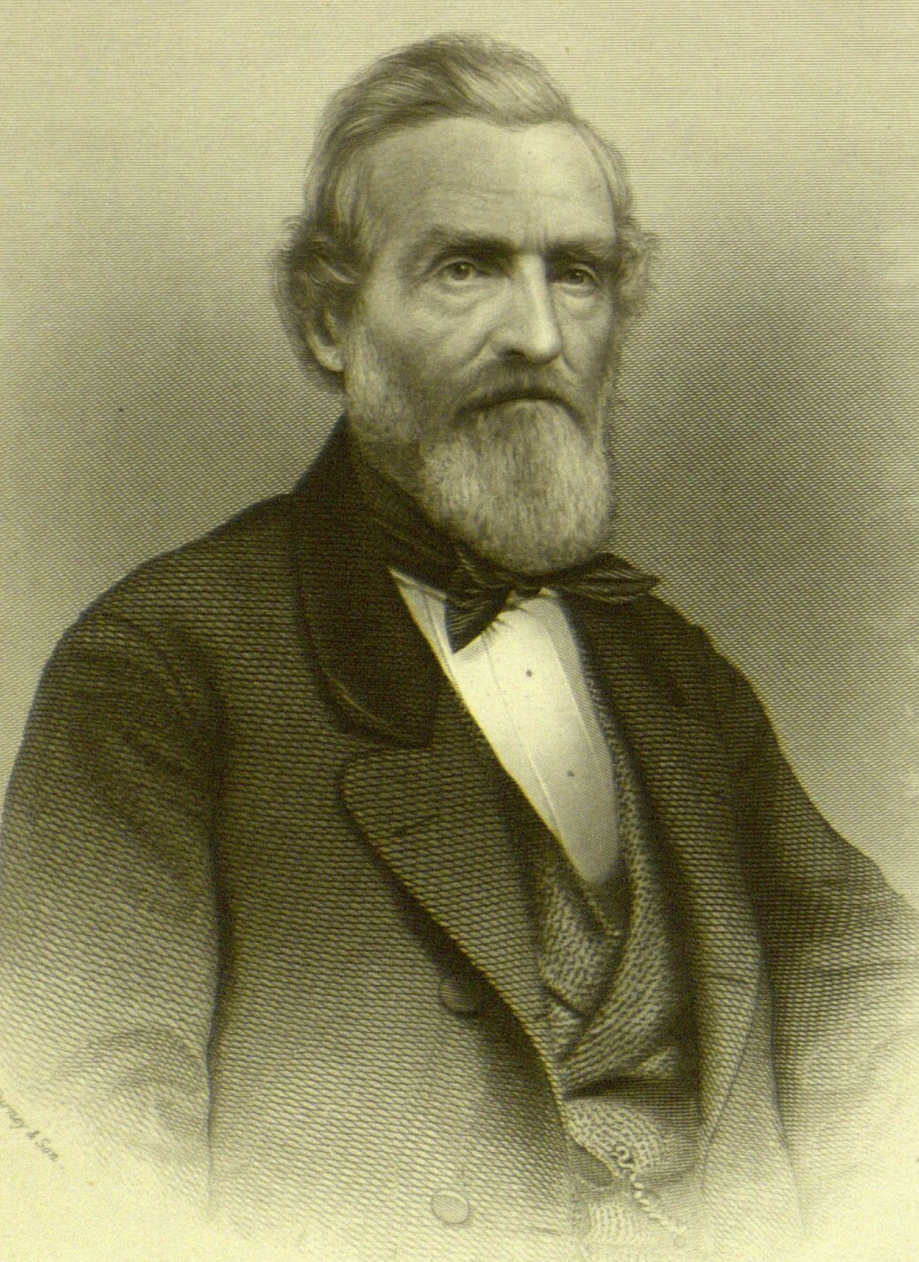 A photograph I took of a page from Pratt's 1868 biography. Around the image it reads: "Photo by J. Churney & Son; Engraved by J.C. Butler N.Y." Below the photo it says: Z. Pratt HON. ZADOC PRATT. of Prattsville N.Y.